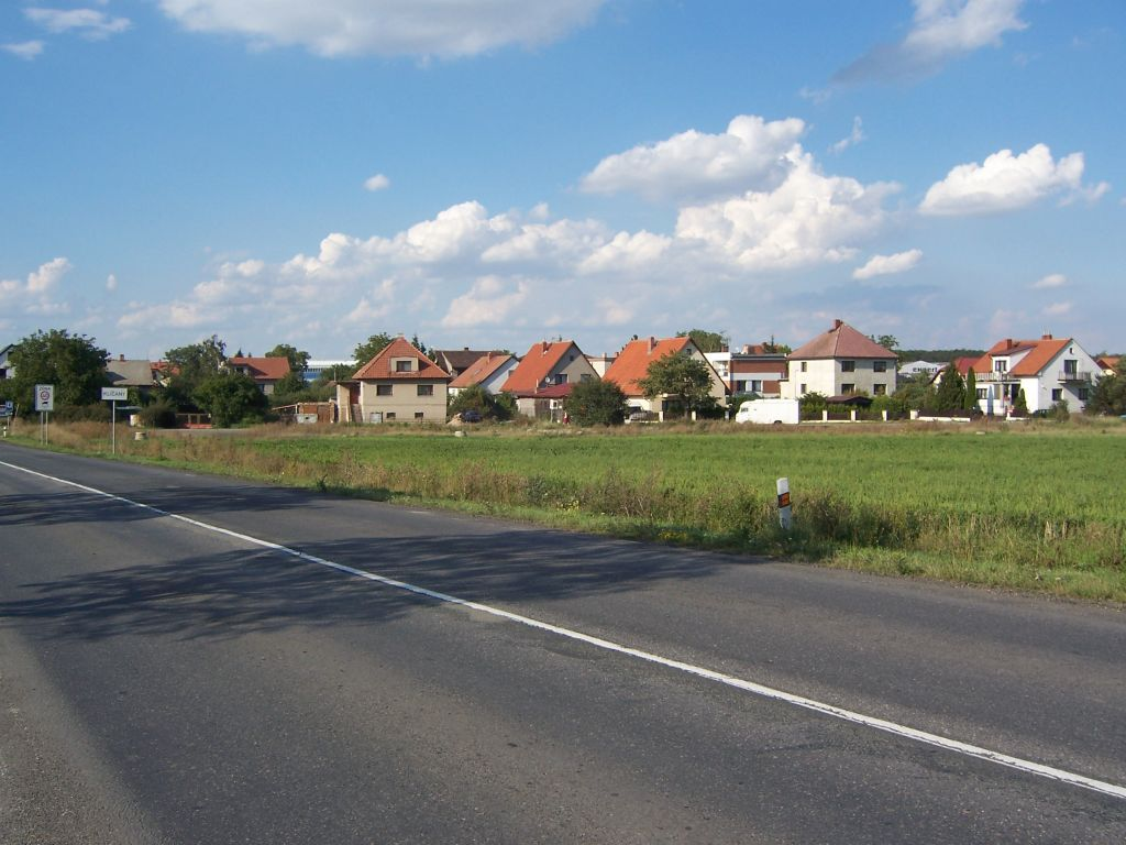 Klíčany Česky: Klíčany